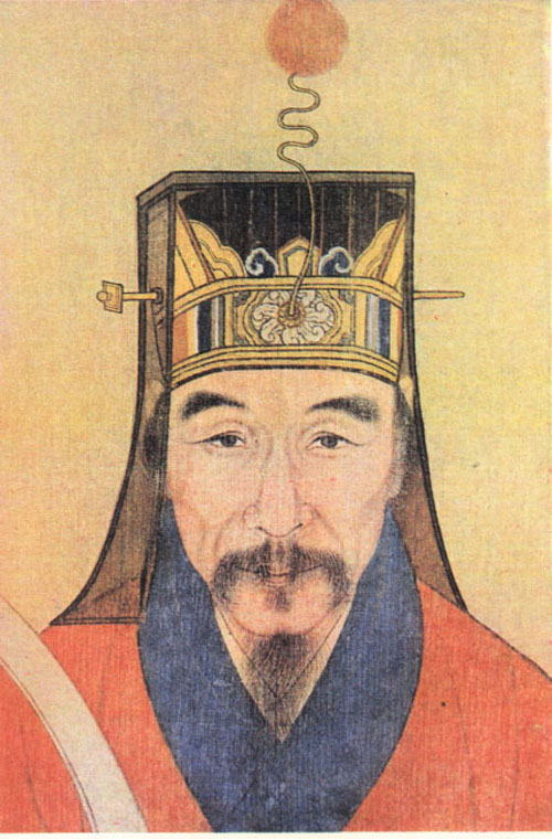 Qu Shisi, politician of the Ming Dynasty.